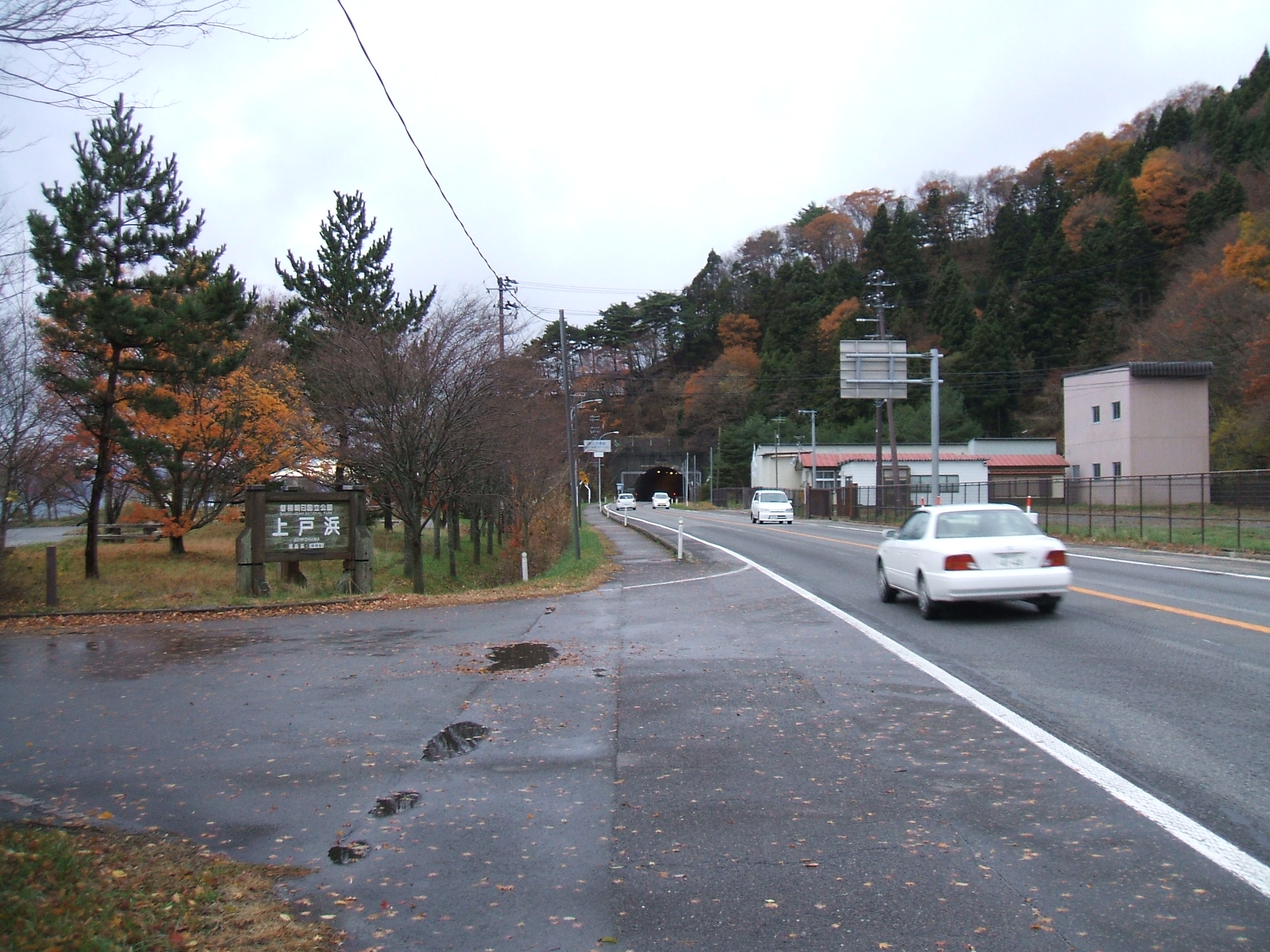 An Entrance of Jokohama beach, at Inawashiro, Fukushima. A front road of picture is Japanese national road, Route 49.